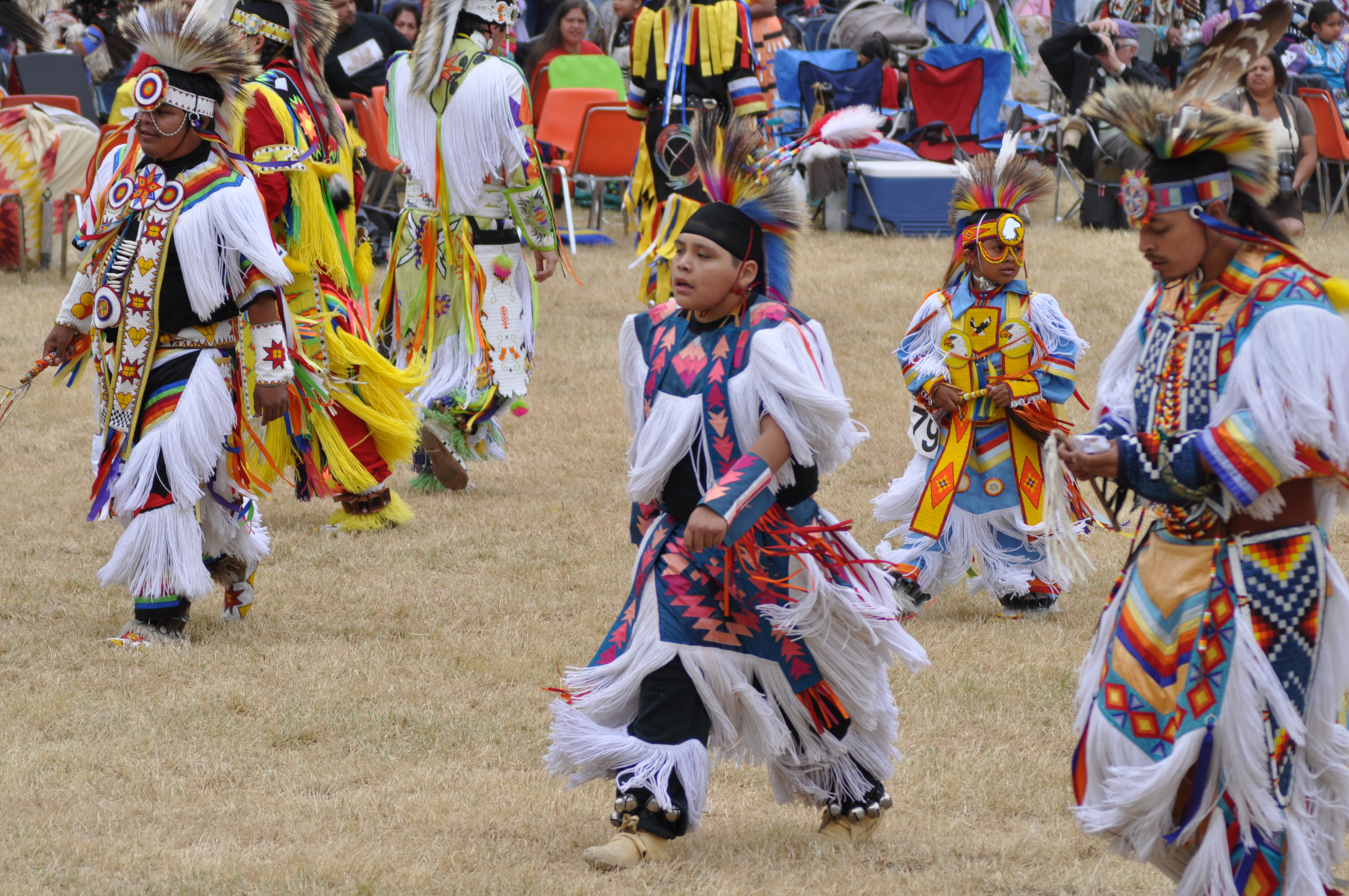 2010 Seafair Indian Days Pow Wow, Seattle, Washington.